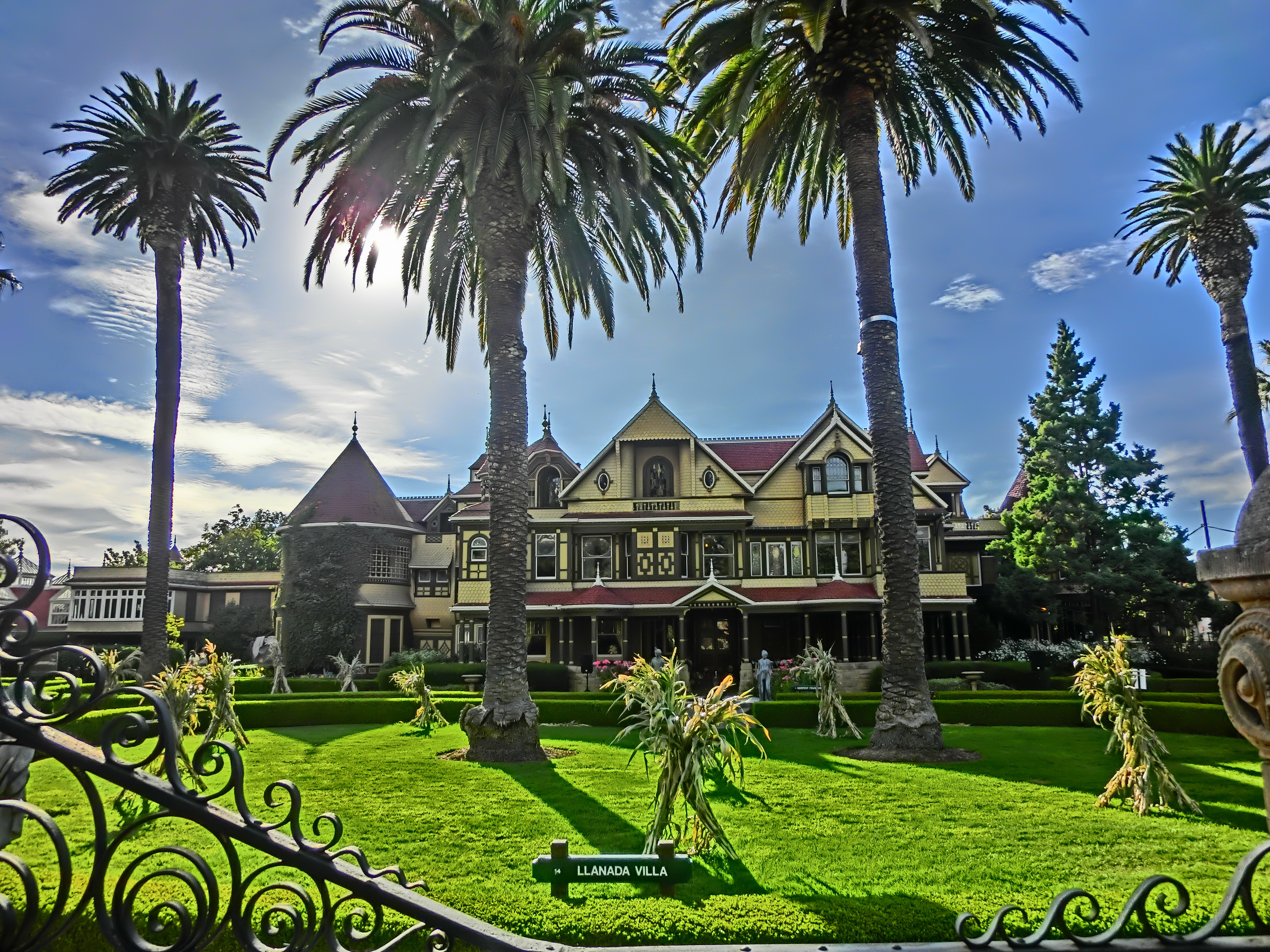 Winchester House